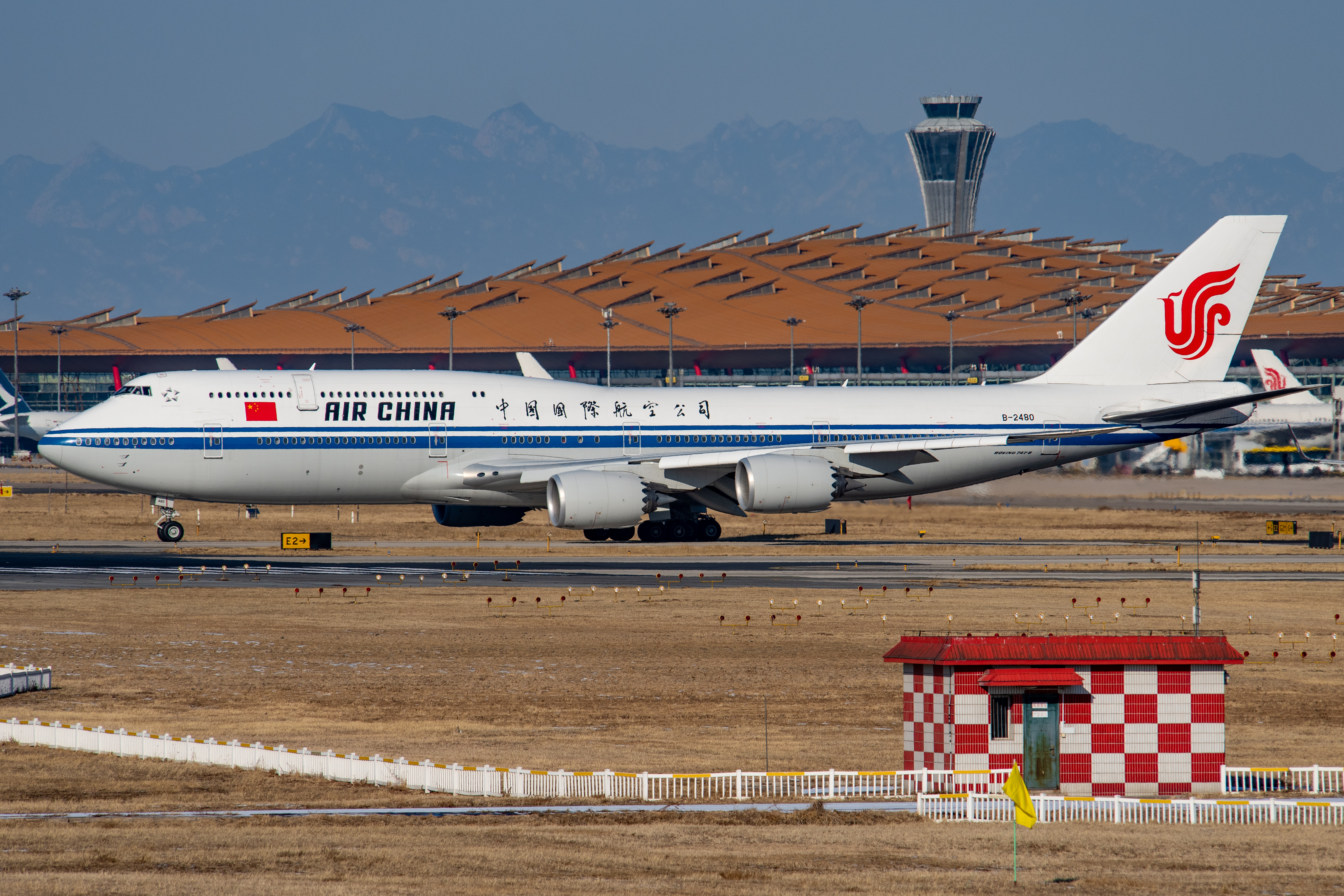 Air China 1517 to Shanghai-Hongqiao.